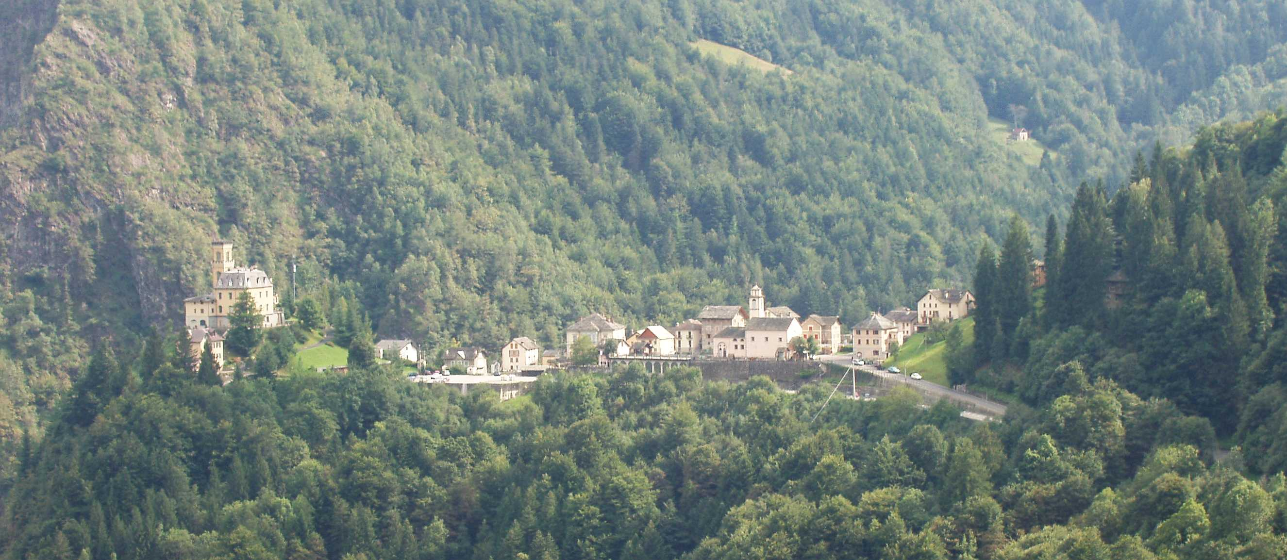 Cervatto (VC, Italy) as seen from Fobello